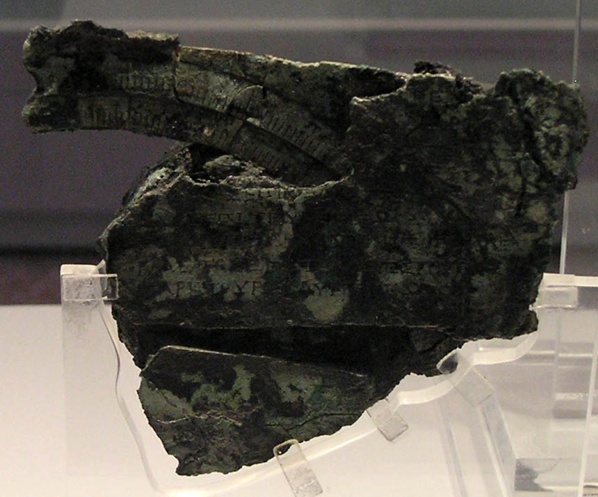 Fragment C of the Antikythera mechanism.